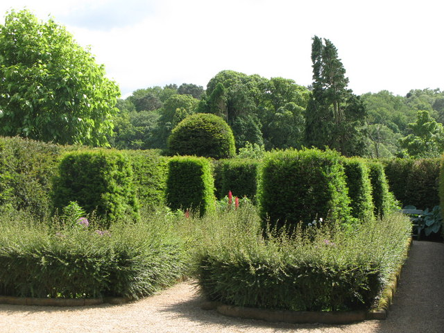 Belsay Hall - the Yew Garden. Looks very different in high summer compared with February (2009) - see Oliver Dixon's photo 1172218.